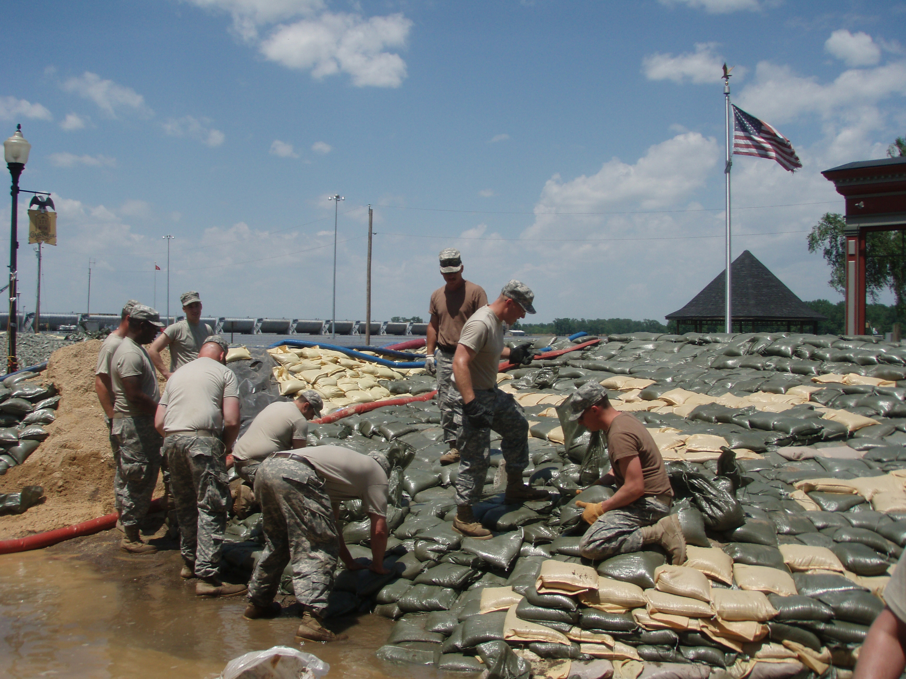 Soldiers from the Missouri National Guard's 1138th Transportation Company reinforce the main wall along the Mississippi River in downtown Clarksville, Mo.